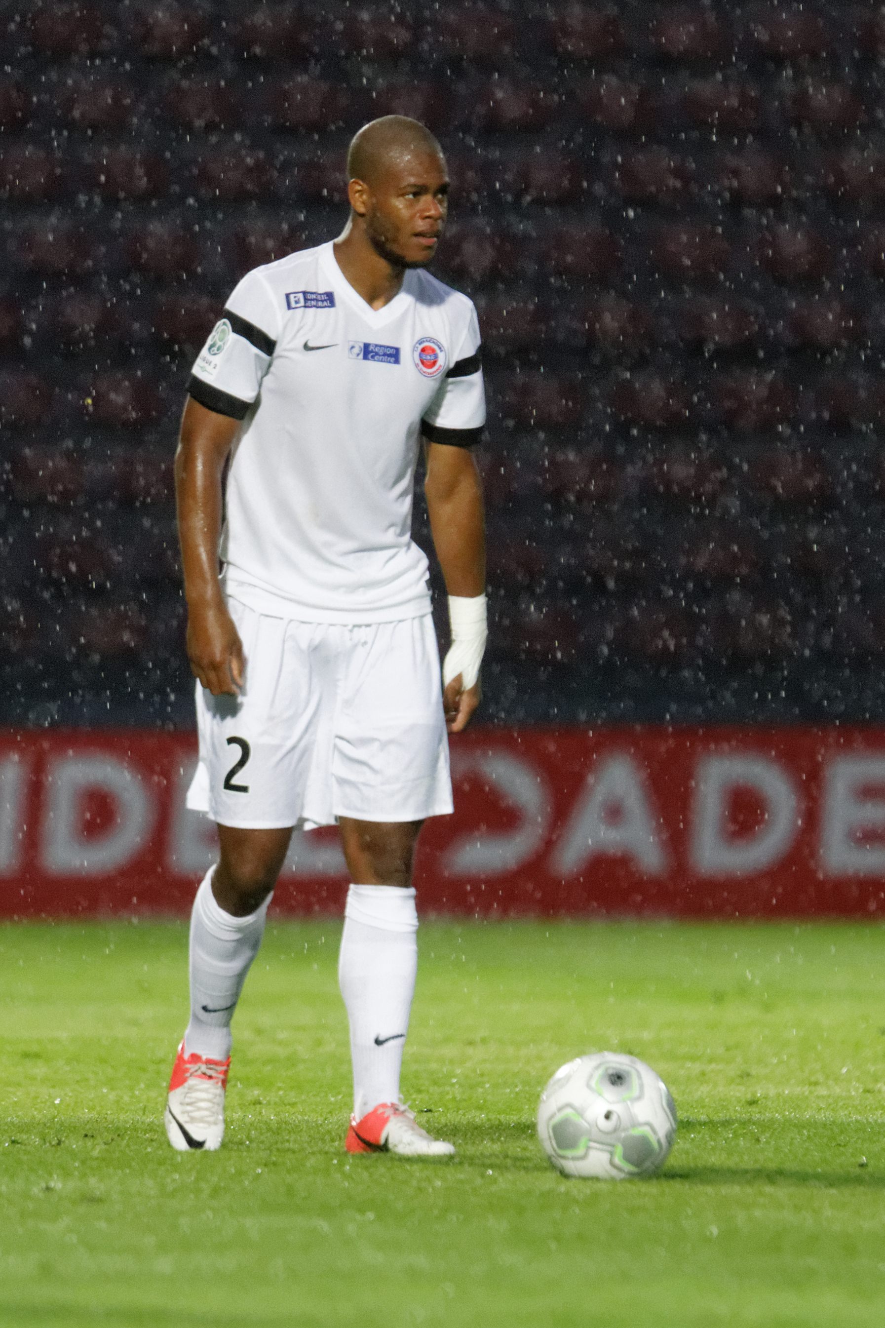 Créteil vs Châteauroux, 8th August 2014.